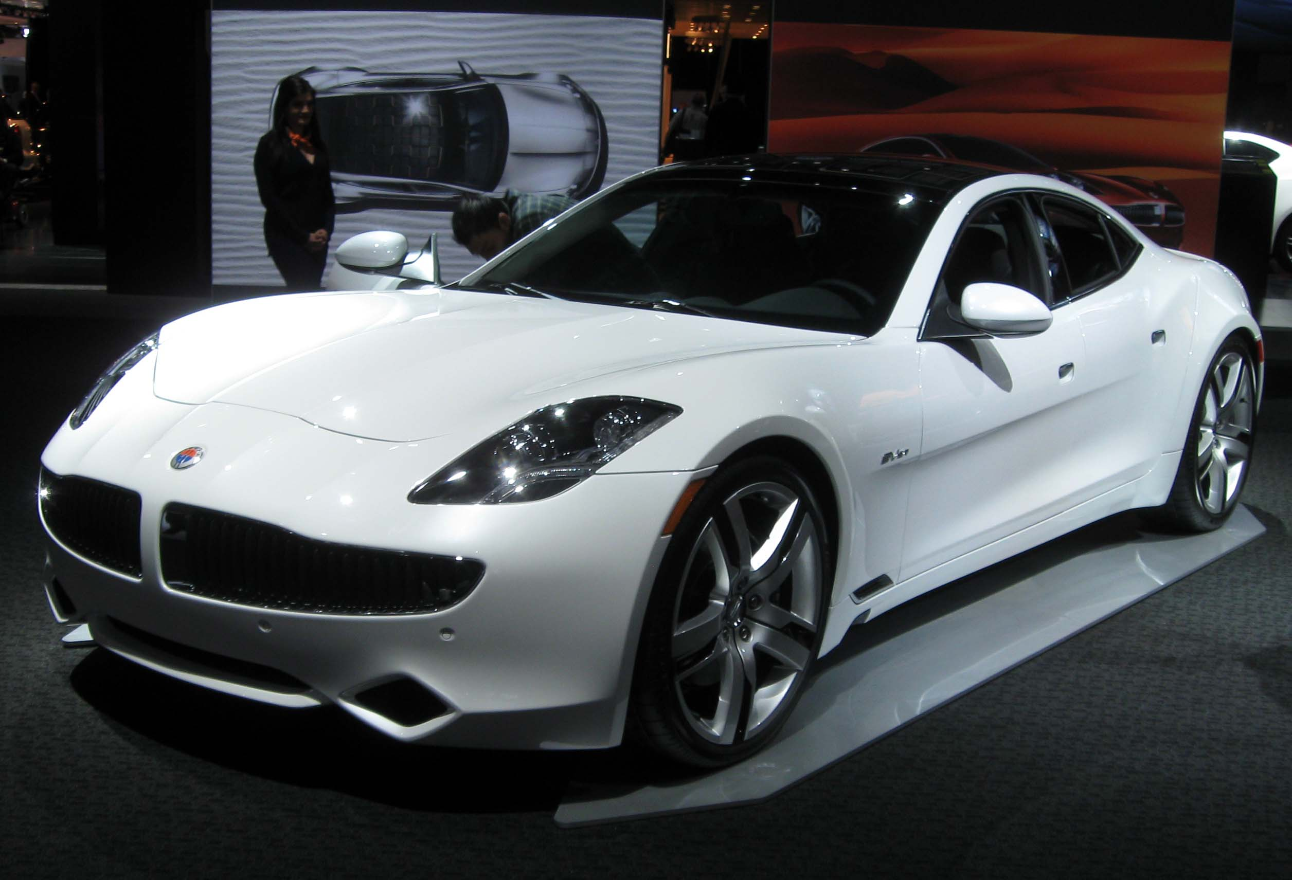 2012 Fisker Karma photographed at the 2012 New York International Auto Show.